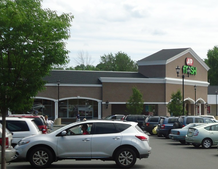 Shopping center with supermarket in the background. New Providence, New Jersey, is a borough in Union County and about 40 minutes west of Manhattan.